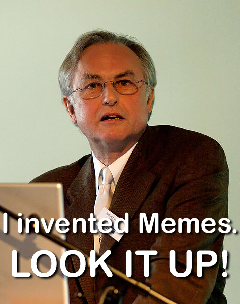 This is a pertinent image of Dawkins and memes